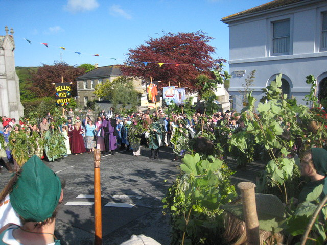 Coinagehall Street Helston : The Hal an Tow celebration arriving. Hal an Tow takes place early in the morning on Flora Day. It is a medieval play depicting the arrival of St Piran bringing Christianity to Cornwall, the slaying of the dragon by St George and the slaying of the devil by Helston's saint, St Michael. 'Hellys bys vykken' seen on the banner is Cornish for 'Helston for ever'.